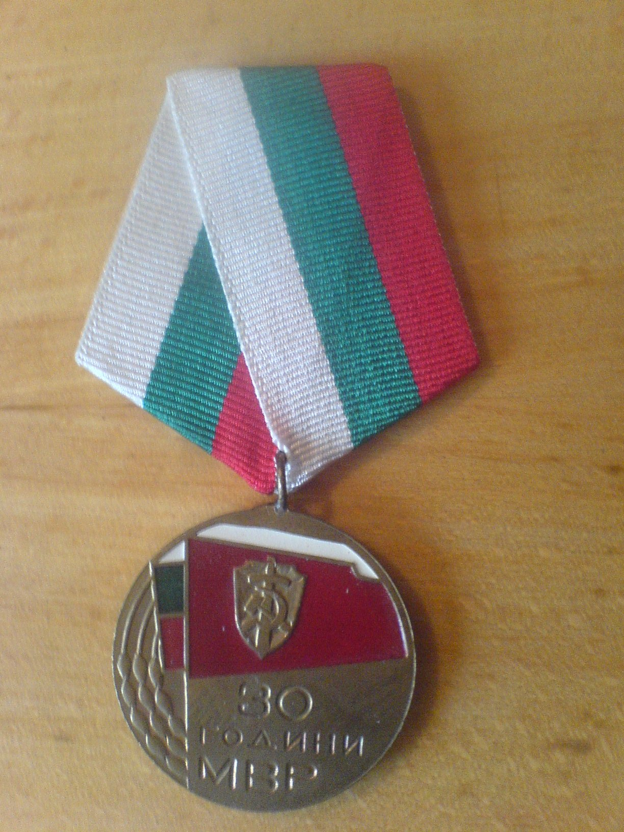 Medal 30 years MVR Socialist Bulgaria 1944-1974, avers